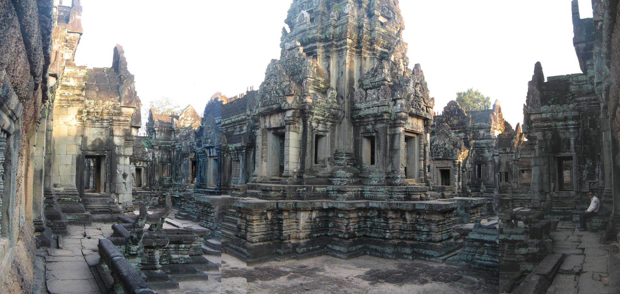 banteay samre, angkor, cambodia